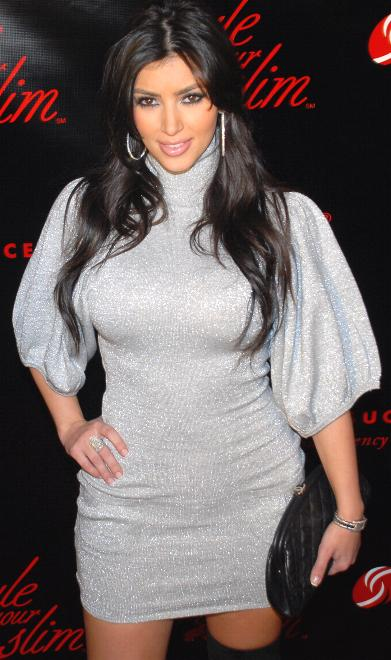 Kim Kardashin at "Style Your Sim" fashion show.